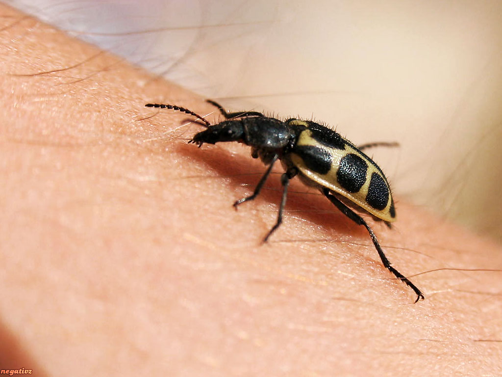 Astylus atromaculatus, Family Melyridae, the Spotted Maize Beetle, lateral aspect. Originally South American, the species is now invasive in other countries, including parts of Africa. Its presence on human skin is adventitious and irrelevant.Astylus atromaculatus